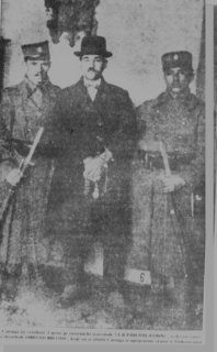 Picture of Jovo Stanisavljević Čaruga, in the middle.